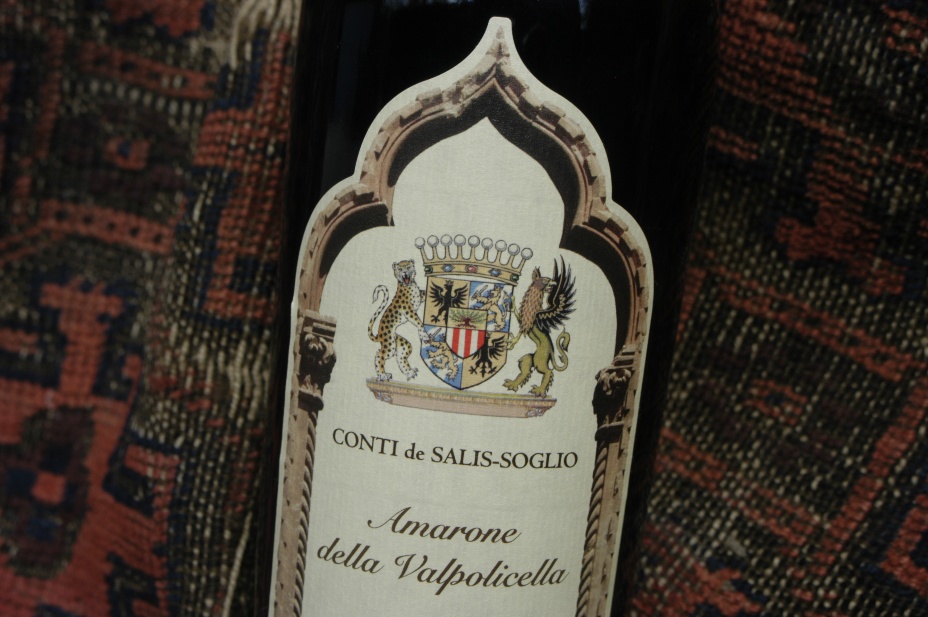 My photo (Rodolph (talk) 01:23, 5 April 2014 (UTC)) of a detail of label of Conti de Salis-Soglio Amarone della Valpolicella, 2007. Photograph taken by me Rodolph (talk) 13:48, 5 April 2014 (UTC), of an over 200 year old design. Otherwise fair-use as designed for and by the subject of the article.Rodolph (talk) 13:48, 5 April 2014 (UTC) Photograph taken by me (28 March 2014) Rodolph (talk) 13:48, 5 April 2014 (UTC), of a piece of heraldry, an over 240 year old design. Otherwise fair-use as designed for and by the subject of the article.Rodolph (talk) 13:48, 5 April 2014 (UTC)